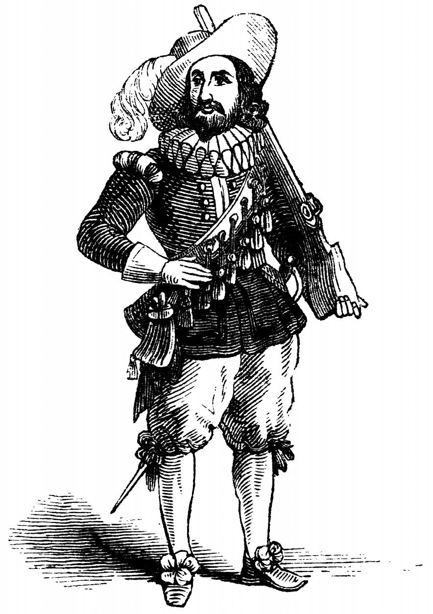 Soldier of Trained Band